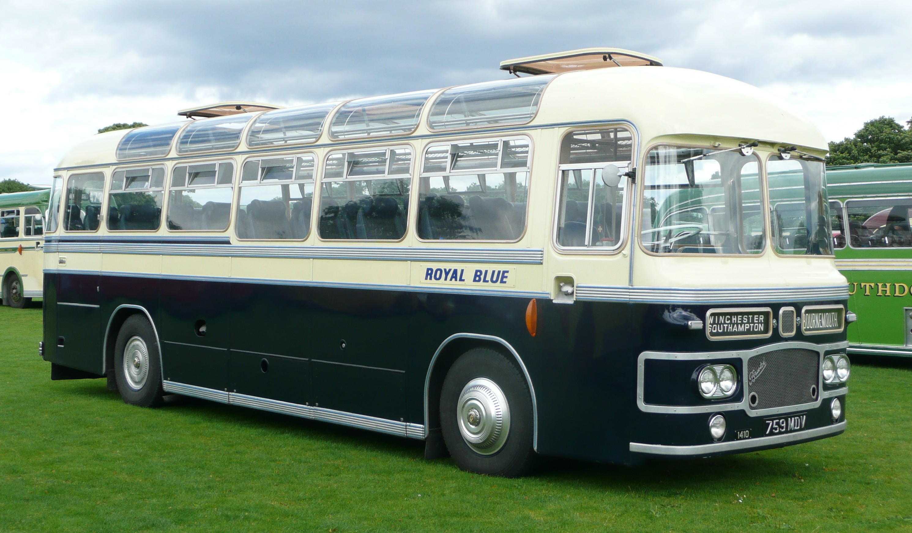 A now preserved Royal Blue Coach Services Bristol Commercial Vehicles bus at the 2008 Alton Bus Rally.